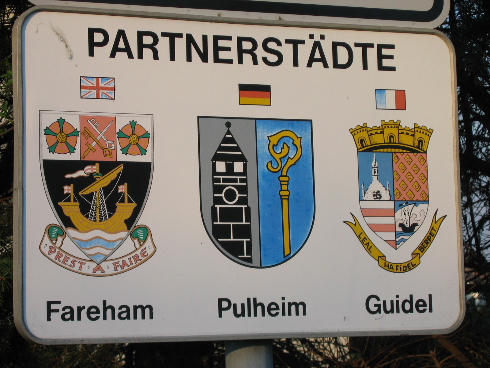 Sign showing the coats of arms of Pulheim (Germany) and its sister cities Fareham (United Kingdom) and Guidel (France)